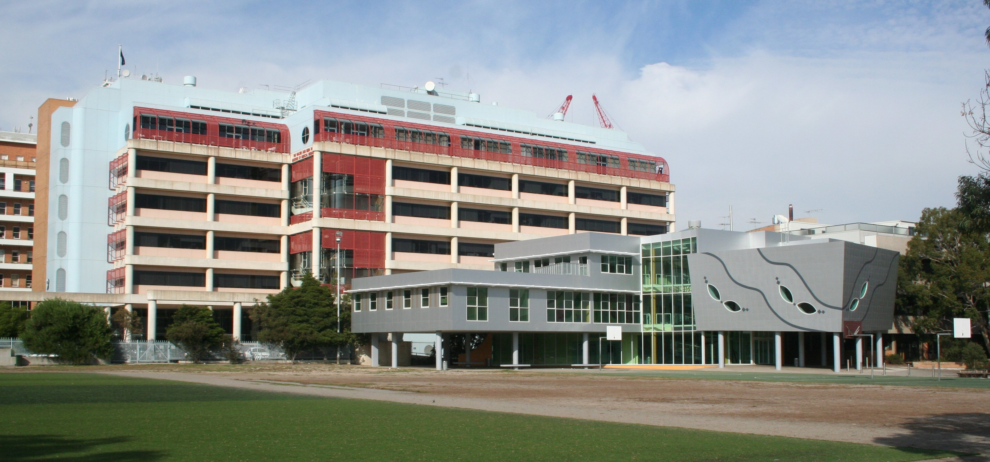 The Walter and Eliza Hall Institute of Medical Research building in Parkville, Melbourne (Australia)